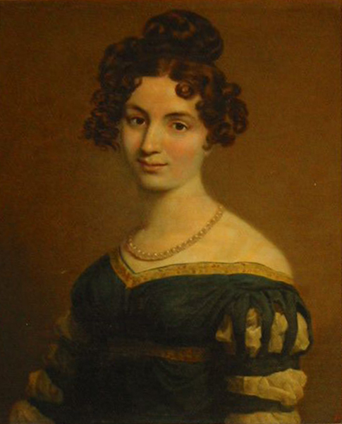 Countess Elisaveta Ksaverevna Vorontsova (1792-1880)